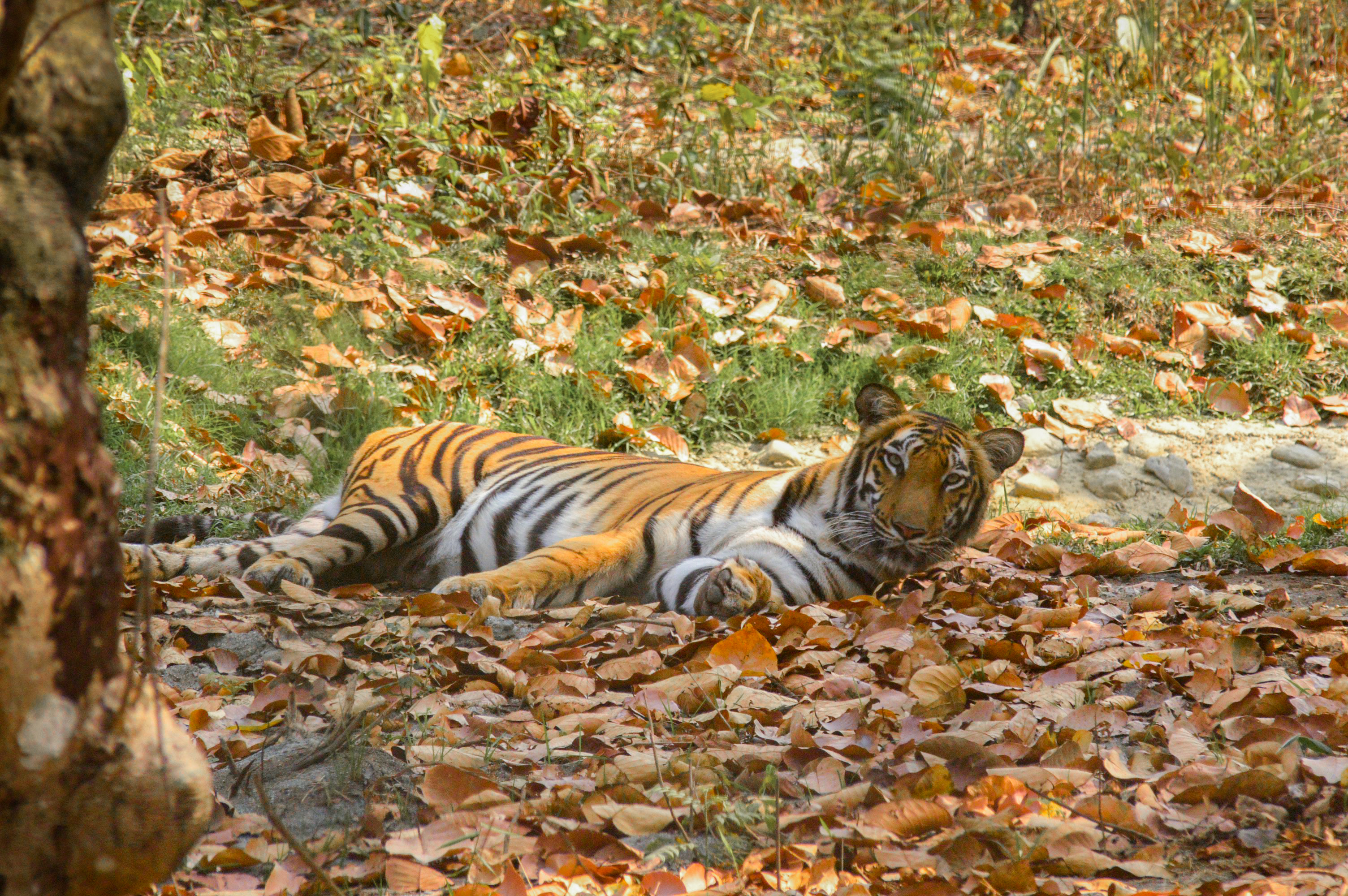 Bengal tiger.